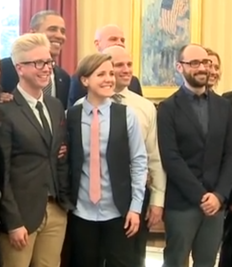 YouTube celebrities and President Barack Obama (L-R: top- Obama, Todd Womack; bottom- Tyler Oakley, Hannah Hart, Lloyd Ahlquist, Michael Stevens) at the White House meeting with YouTube celebrities concerning , 2014 (screenshot from YouTube video)